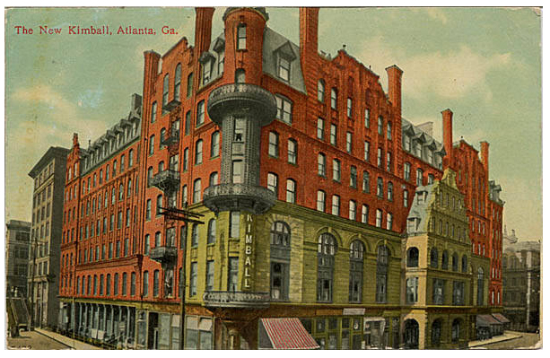 Postcard of The New Kimball, Atlanta, Ga. Year of postcard not certain by the Georgia Archives.